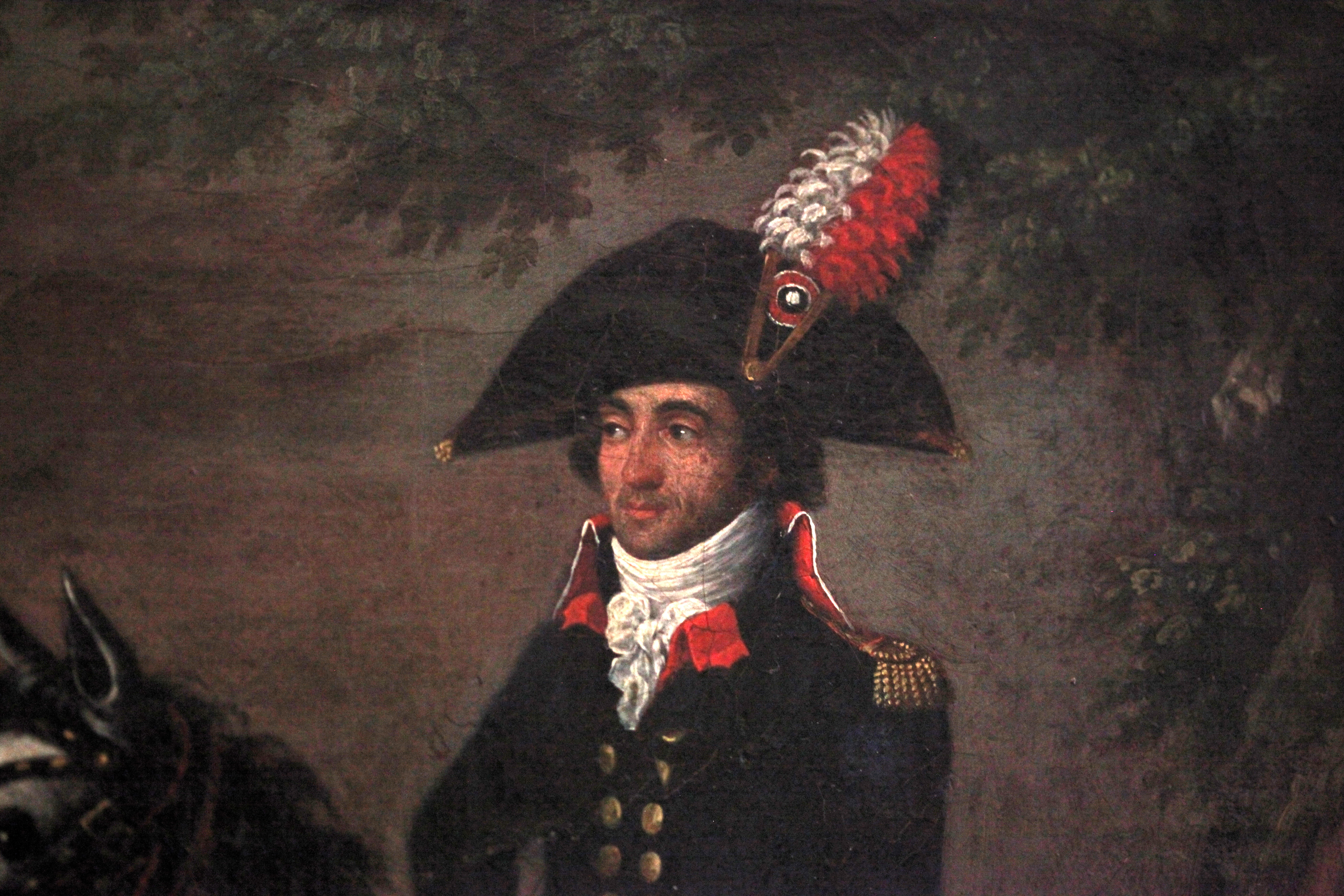 Portrait of general Jean-Baptiste Jourdan and his aid, by Johann Friedrich Dryander. Oil on canvas, 1794. Purchased in 1990 with the support of the State and the Région Rhône-Alpes. On display at Château de Vizille, accession number MRF 1990-12. Musée de la Révolution française Native nameMusée de la Révolution françaiseLocationVizilleCoordinates45° 04′ 32″ N, 5° 46′ 23″ E Established1983Web page control : Q2389498 VIAF: 141488728 ISNI: 0000 0001 2324 3759 ULAN: 500312690 LCCN: n85154456 GND: 1211686-5 WorldCat institution QS:P195,Q2389498